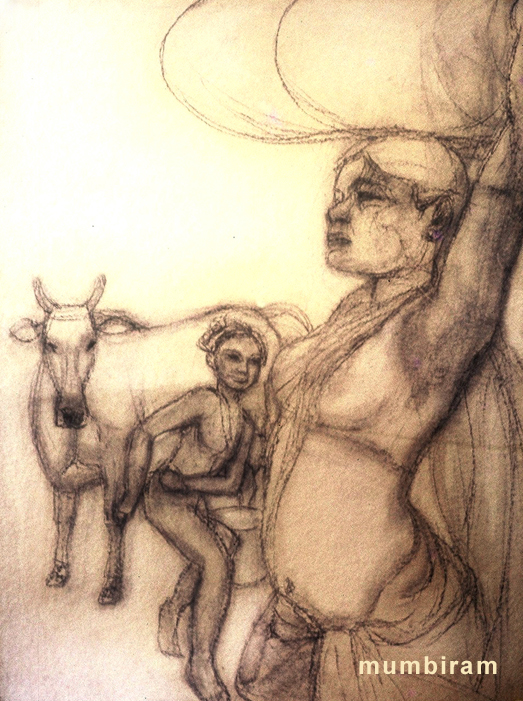 Foto of the original Charcoal by Artist Mumbiram. Created in India and inspired by beautiful dark muses who are really the forgotten beauties of India. It is in the mood of prema vivarta.